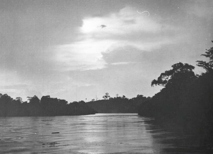 The moon shines behind the clouds above the Barito river